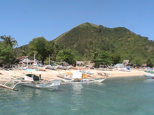 View of Malangabang Island from a pumpboat.